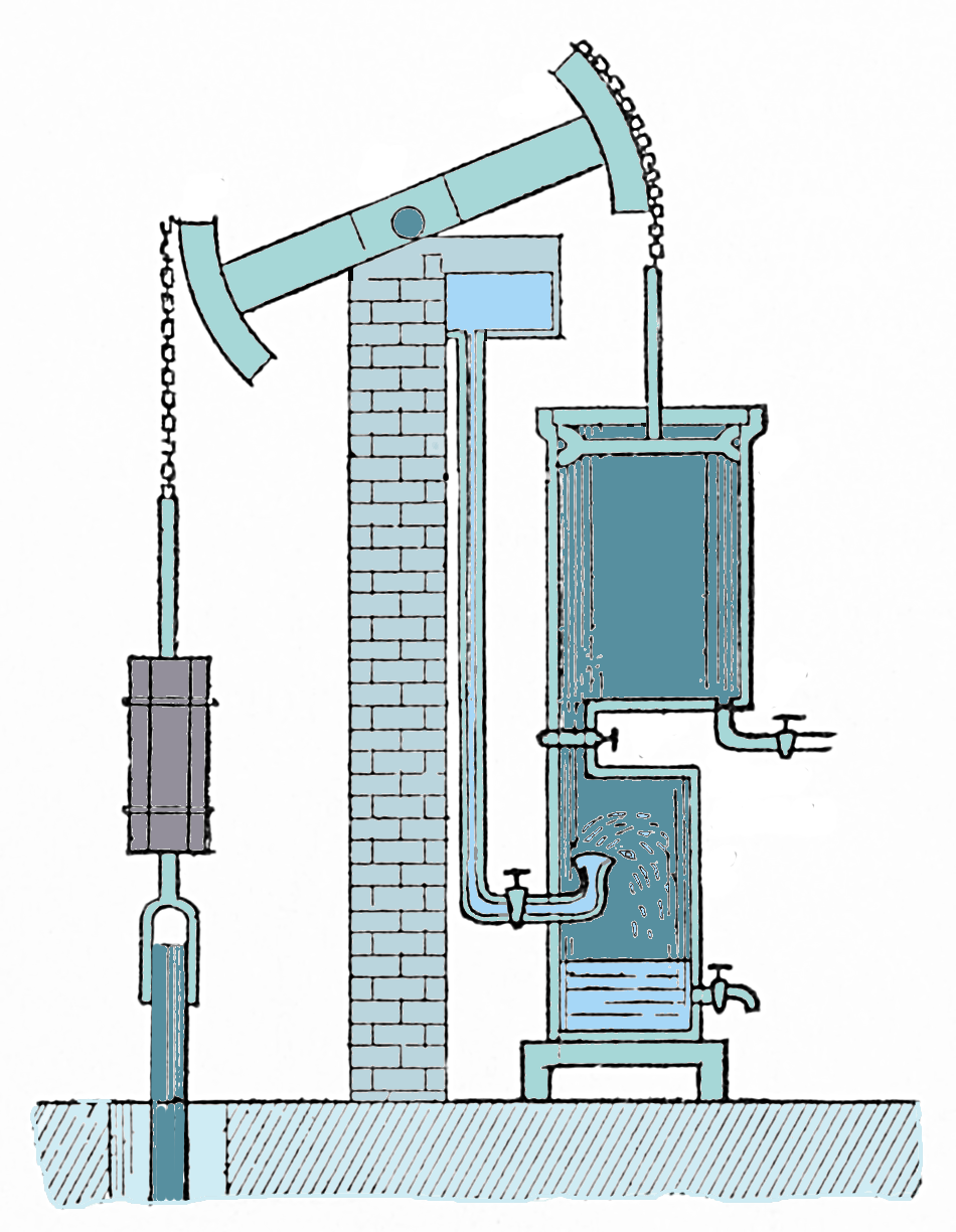 Watt steam engine.